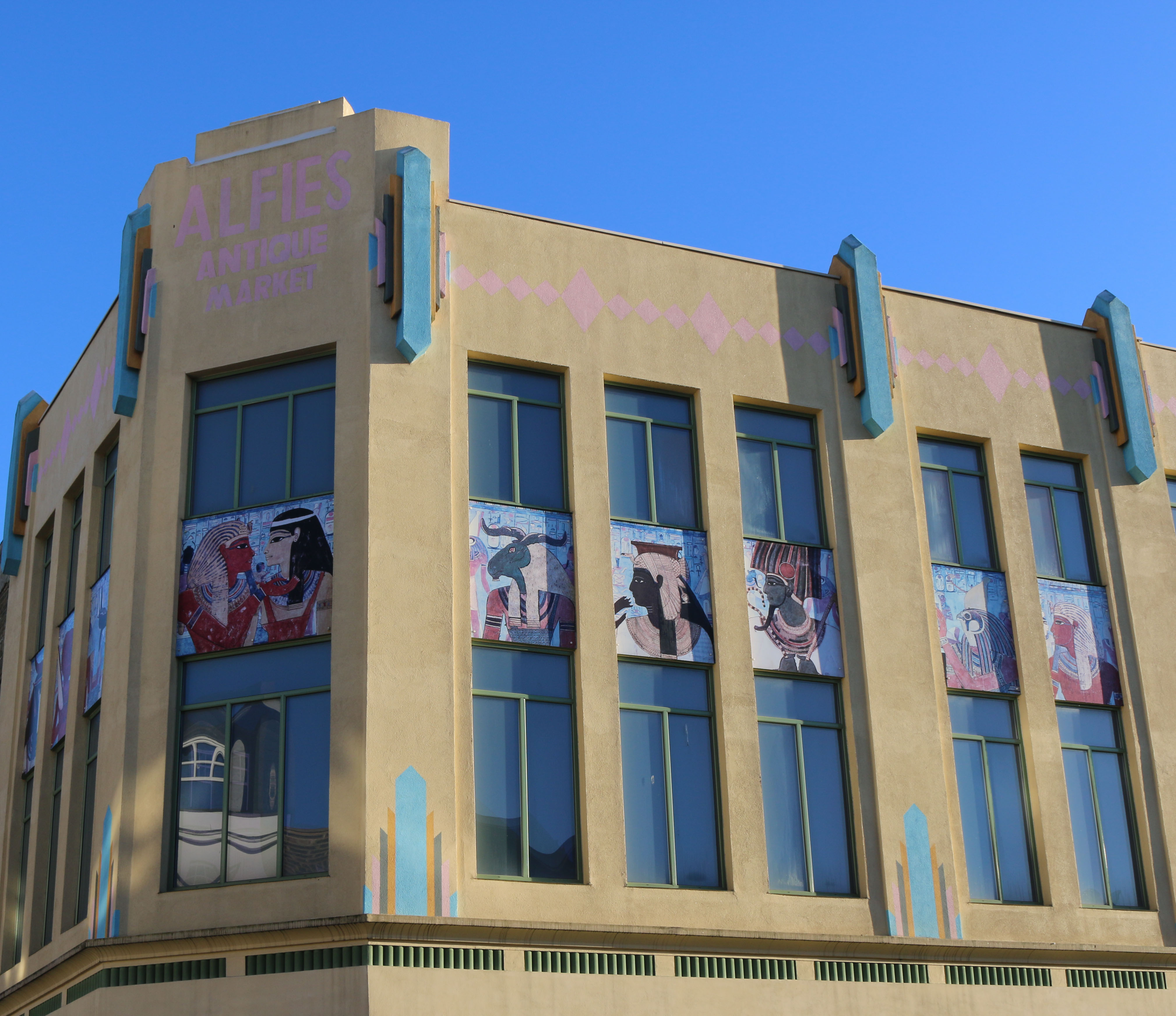 'Alfies Antique Market', like all good antiques shops should, pays homage to the past. Its storefront is an Art Deco triumph inspired by ancient Egyptian design. Inside are small vintage shops selling specialist objects.